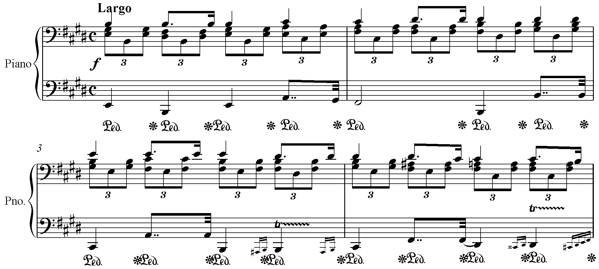 4 first bars of Chopins prelude 9 op. 28